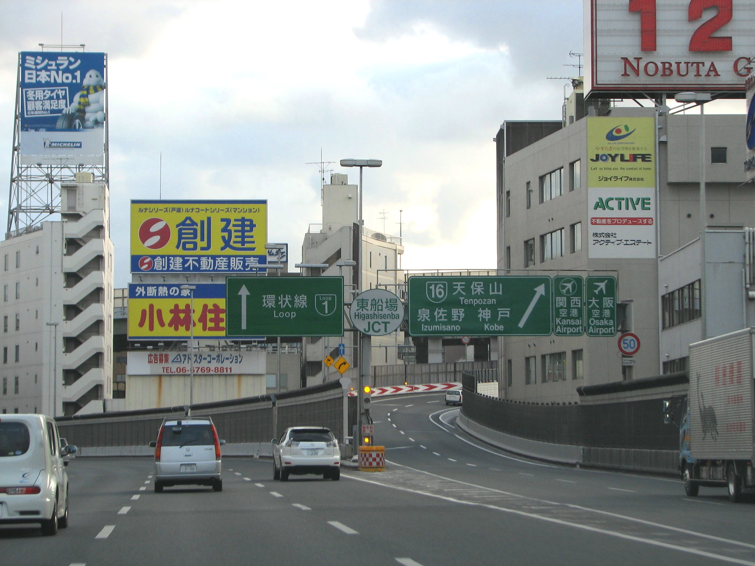 Hanshin Expressway Higashi-Semba JCT (form Loop Route)